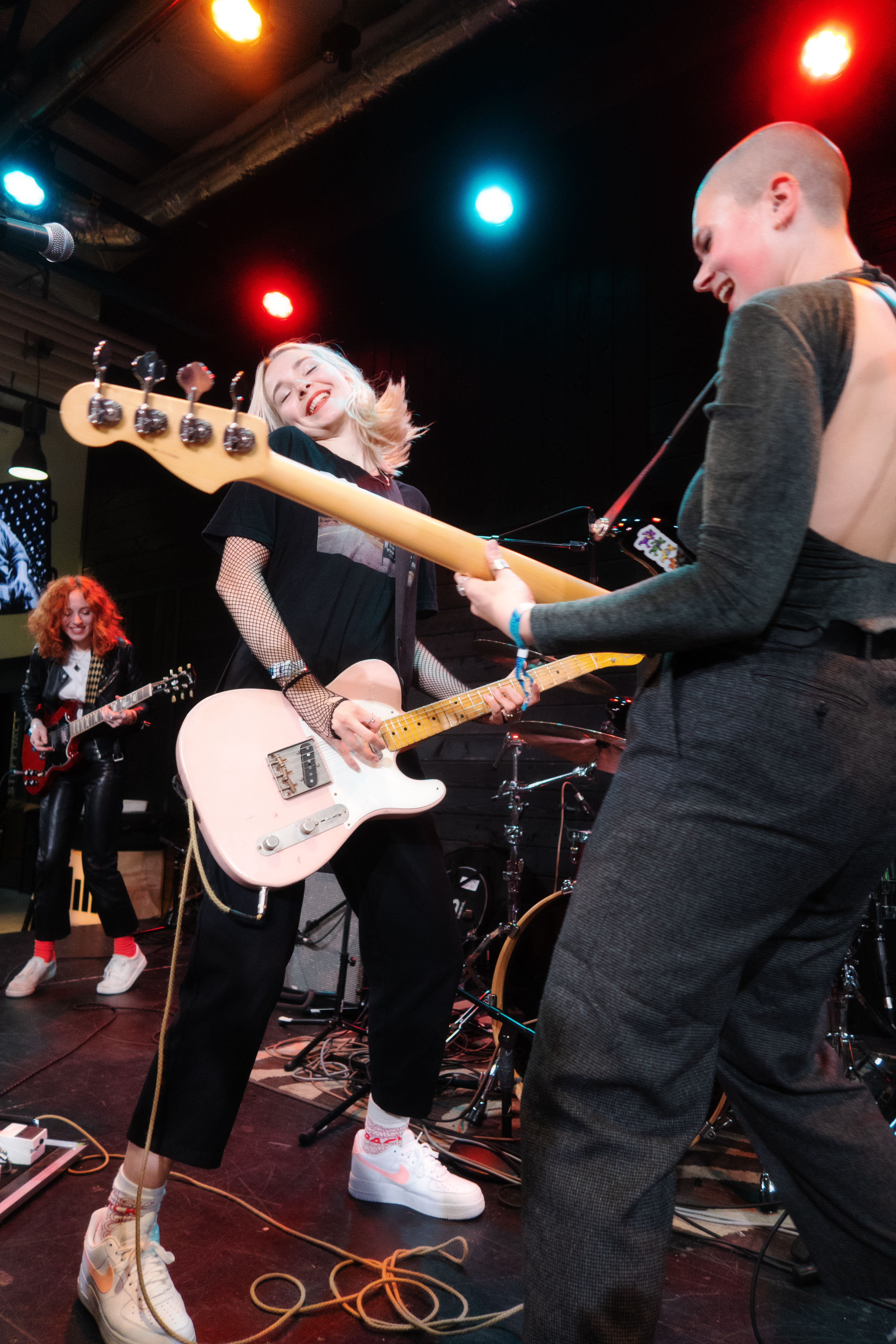 The Regrettes